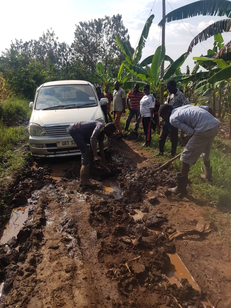 This file represents one of the commonest means of fishing on the nile river in Uganda. This is an image with the theme "Africa on the Move or Transport" from: Uganda